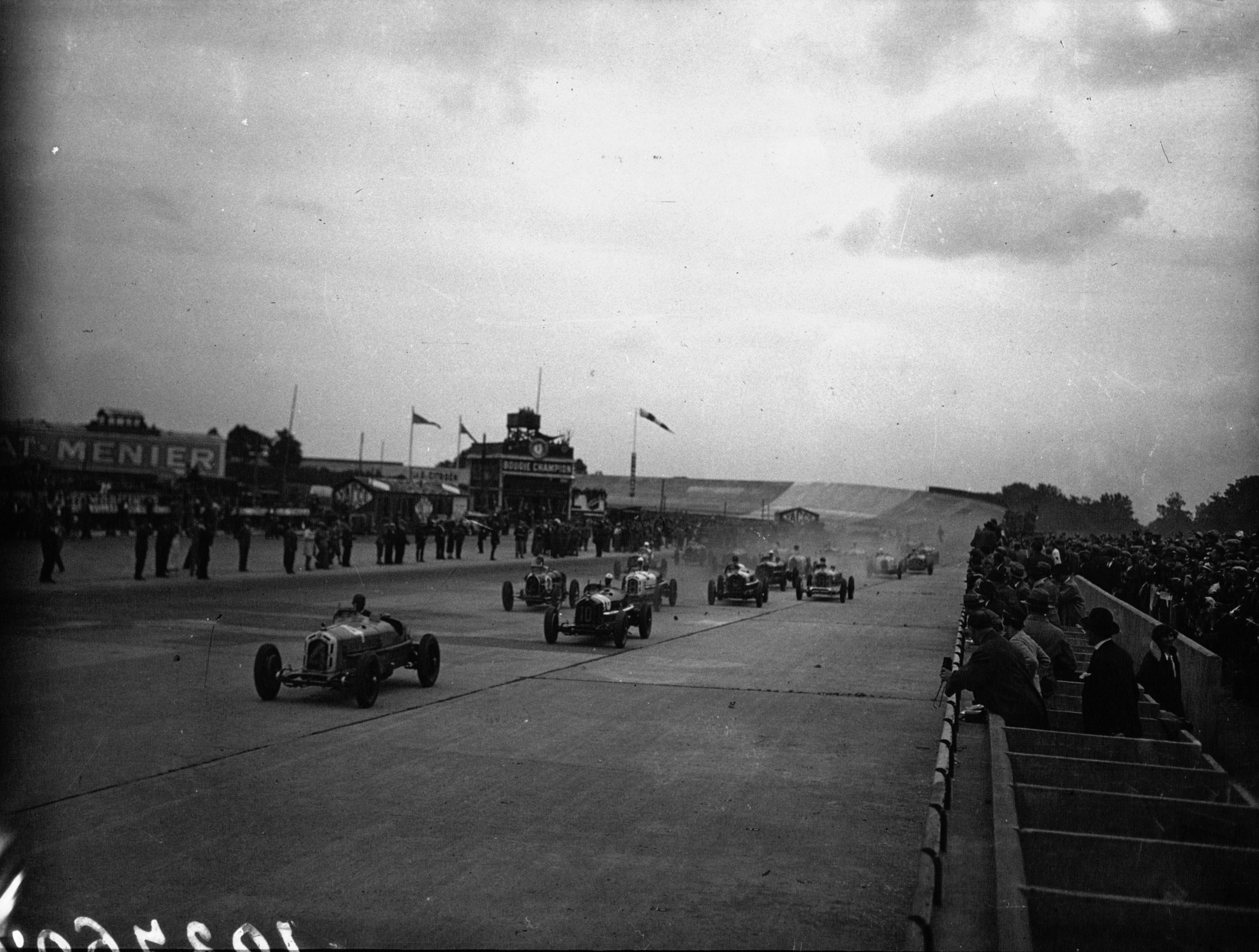 Start of the 1933 French Grand Prix